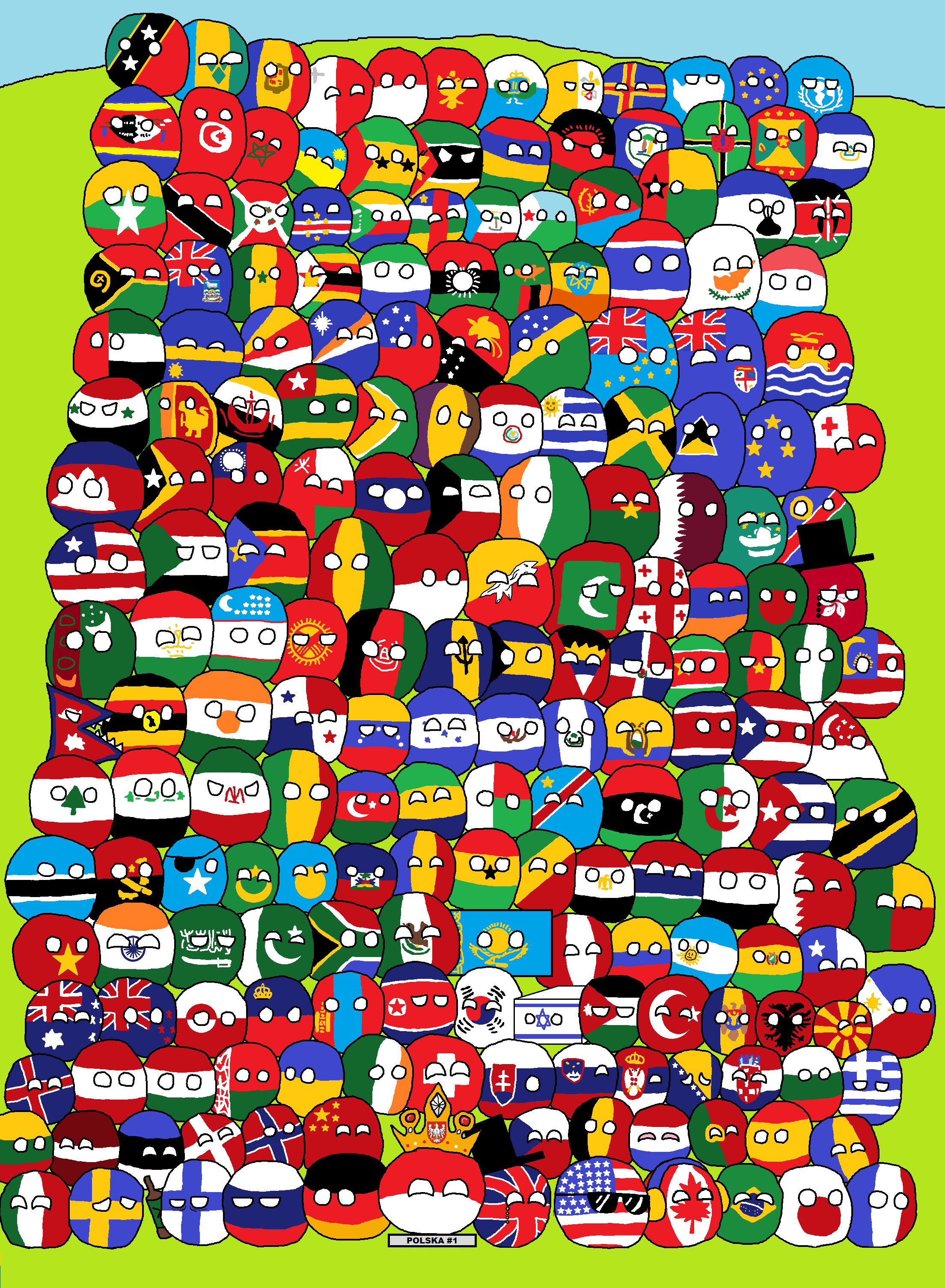 Polandball countries of the world